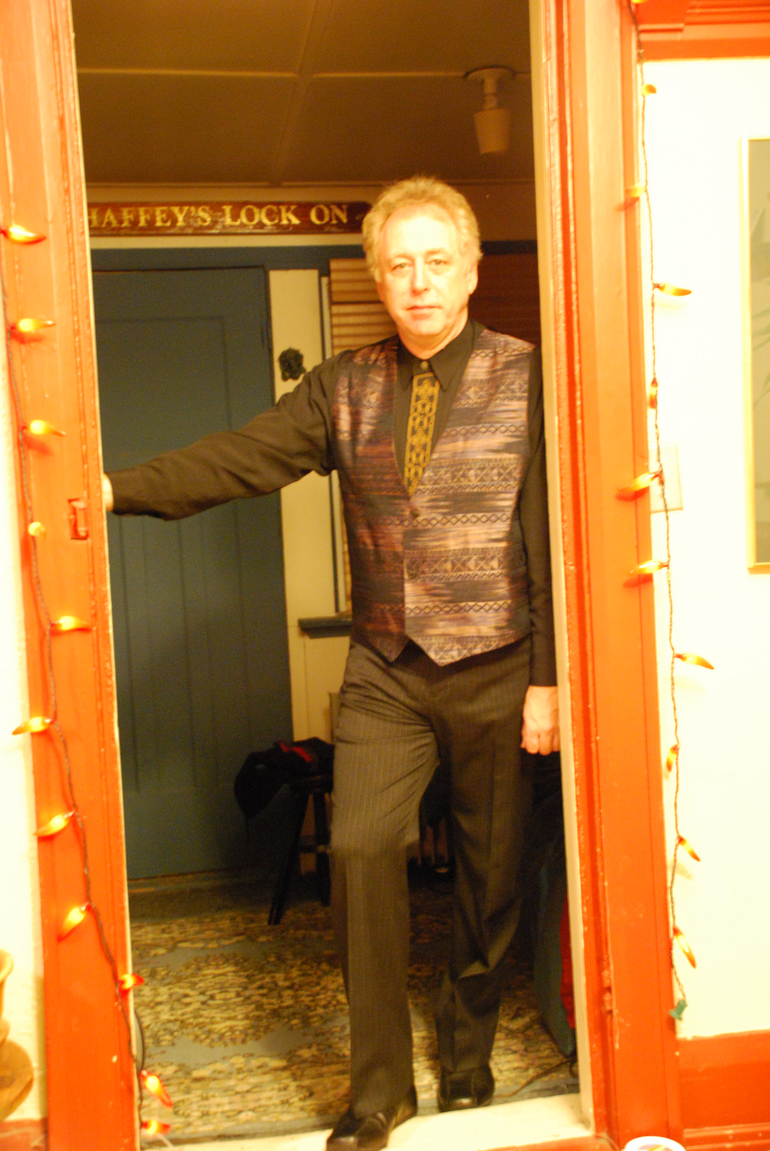 Adrian Truss, English actor